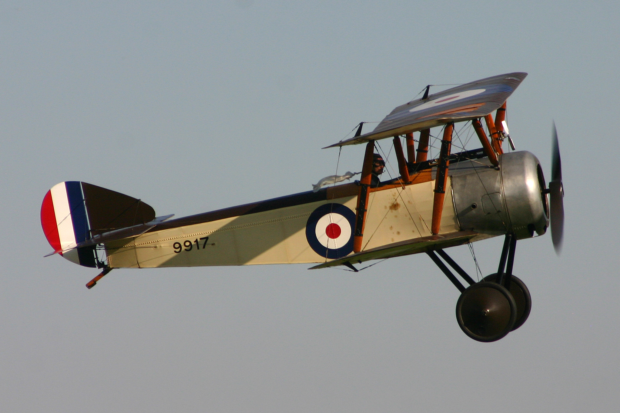 Actually converted from a Sopwith Dove which had no military history. c/n W/o 3004/14. Displaying at Old Warden. 02-10-2011